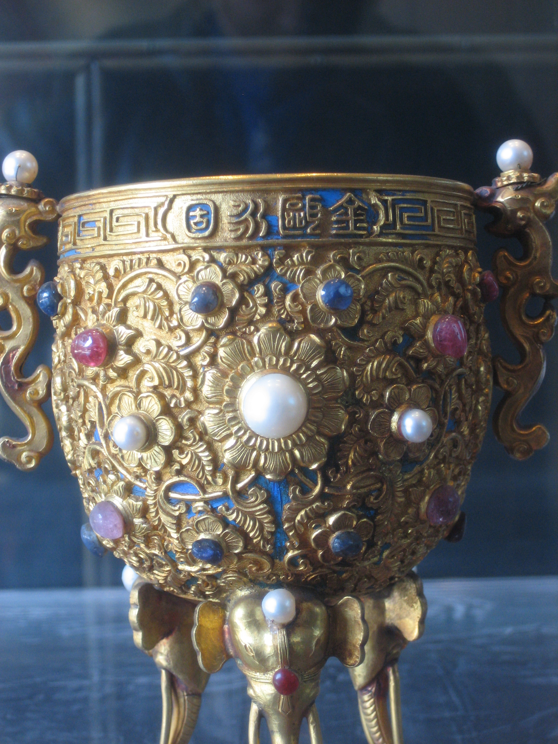 Art collection in the Forbidden City, Beijing